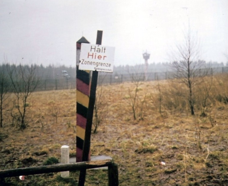 Outer strip of the inner German border. (Image retouched and reprocessed by ChrisO